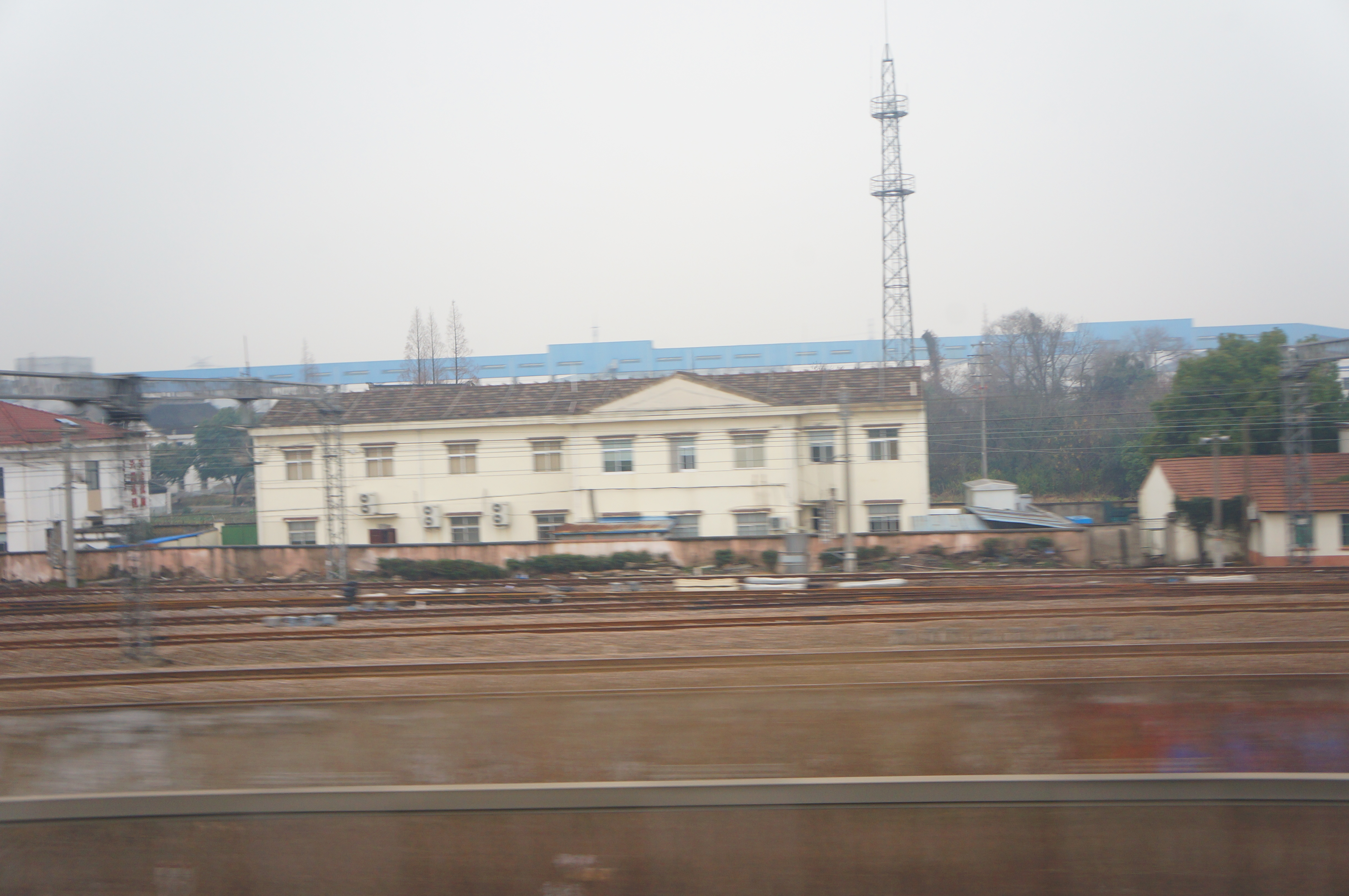 201712 Station Building of Wangting Station